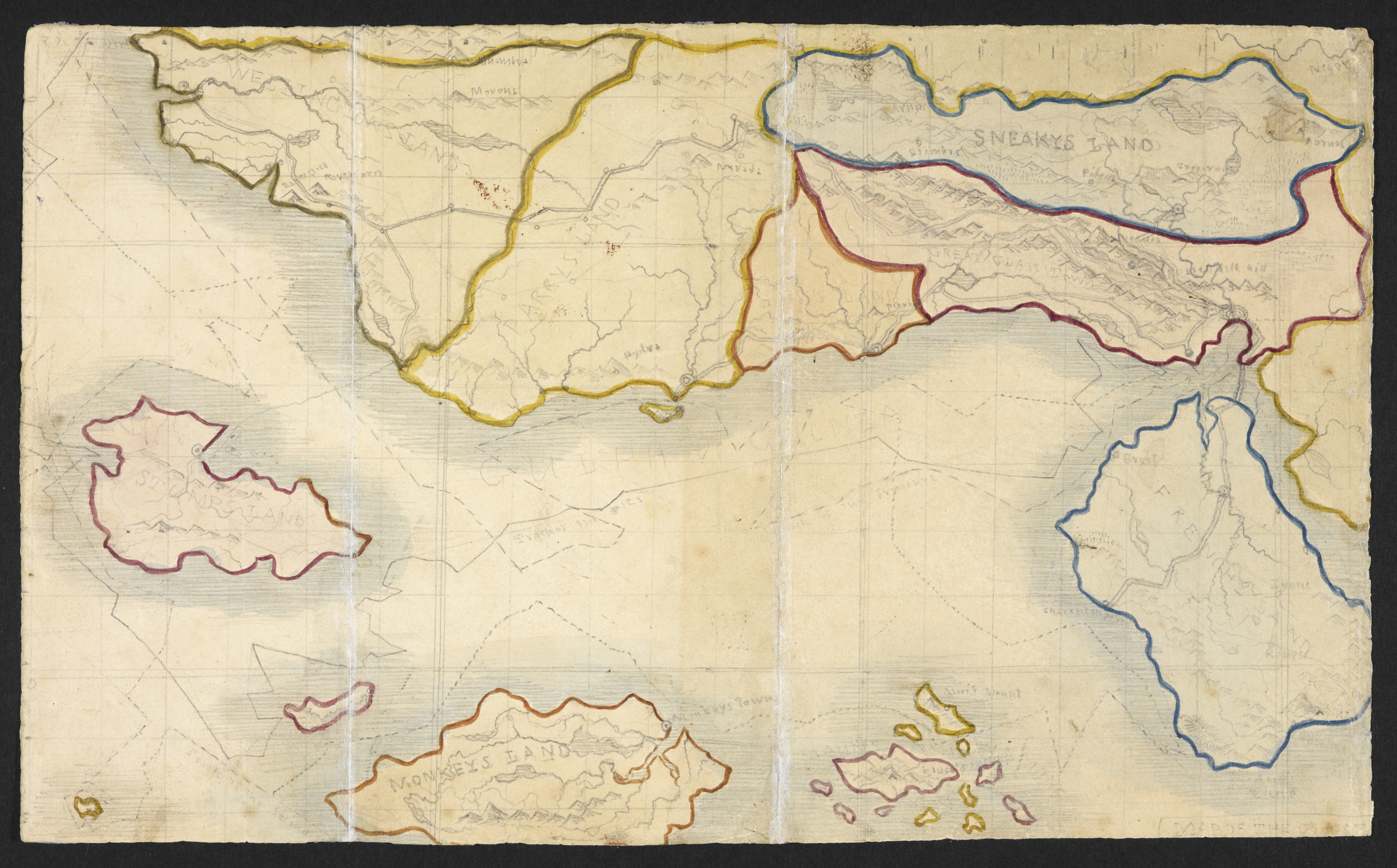 A hand-drawn map of the imaginary country of Angria from Branwell and Charlotte Brontë's notebooks. The map is thought to have been created between 1830 and 1831 (probably no later than 8 May 1831).